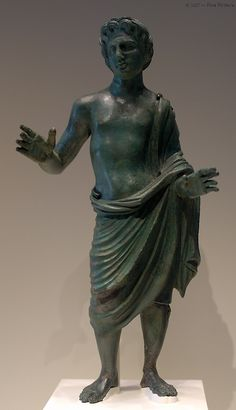 Bronze Statuette of boy in dedication to God Lur